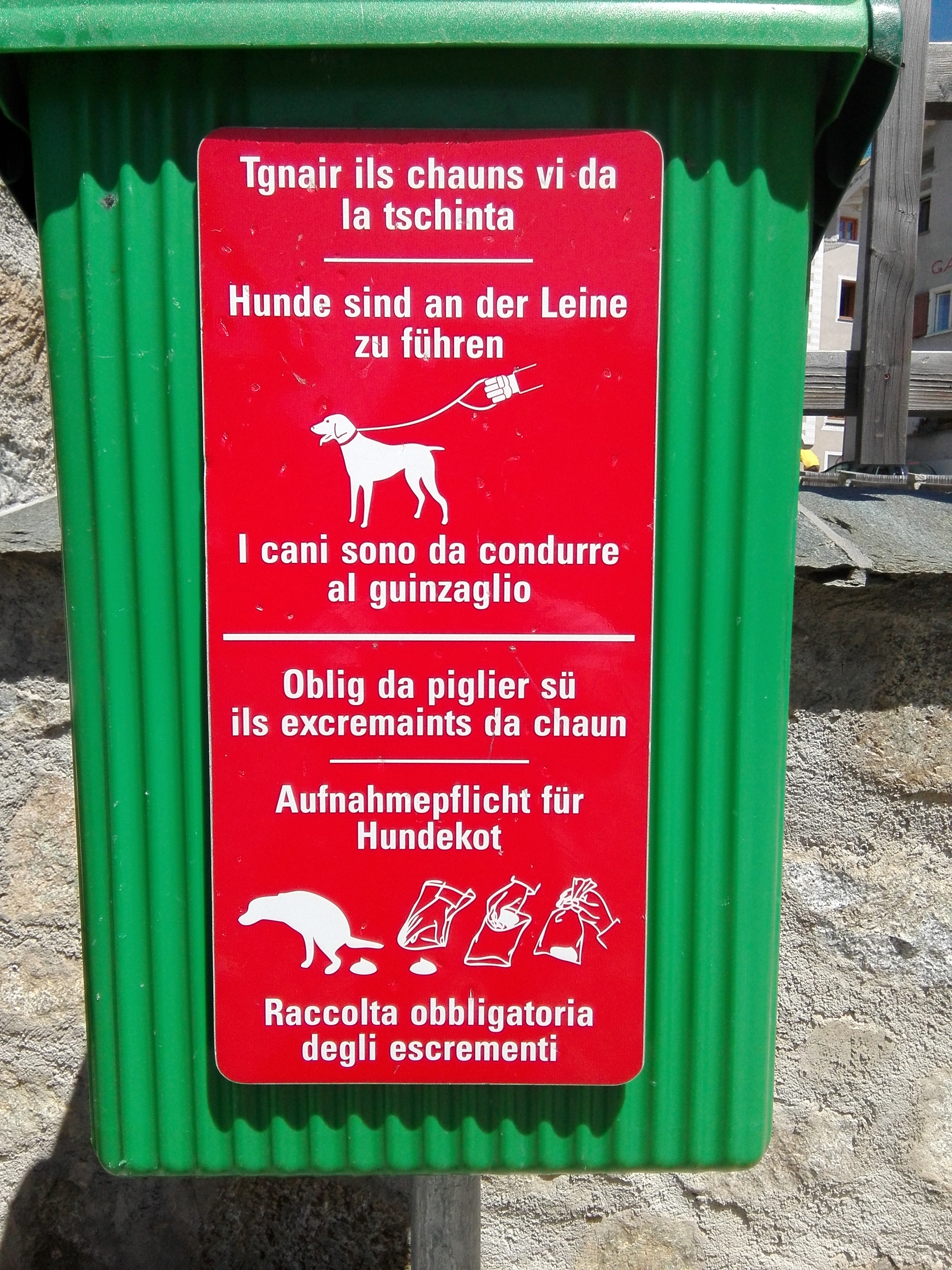 Sign about local regulations concerning dogs in public, in German, Italian, and the Romansh variety Putèr, in Samedan in the Engadine, Switzerland.